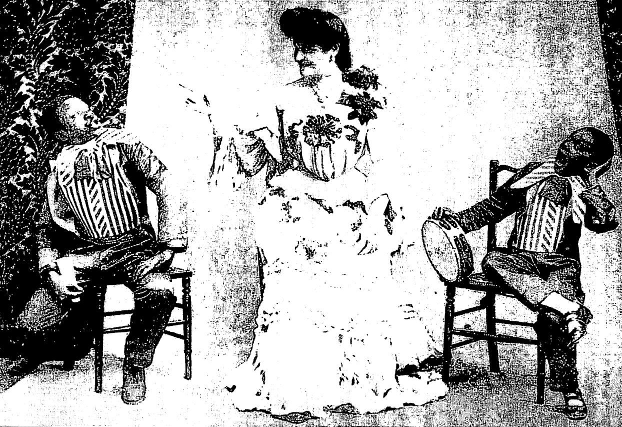 Belle Davis and support - guess at 1906